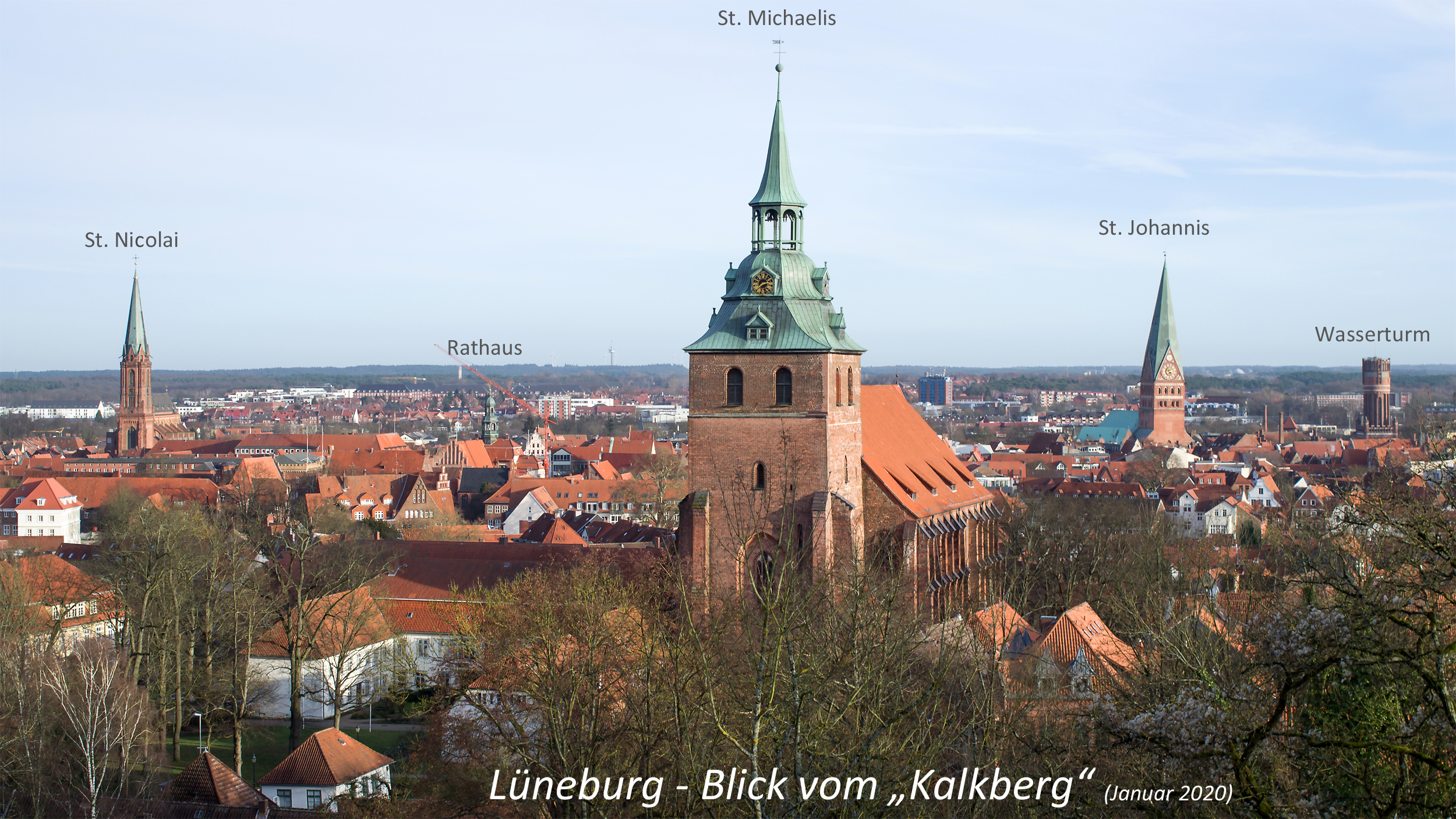 View from the west (= viewpoint "Kalkberg") to the inner city of Luneburg, including the three main churches. North-eastern Lower Saxony, Germany.